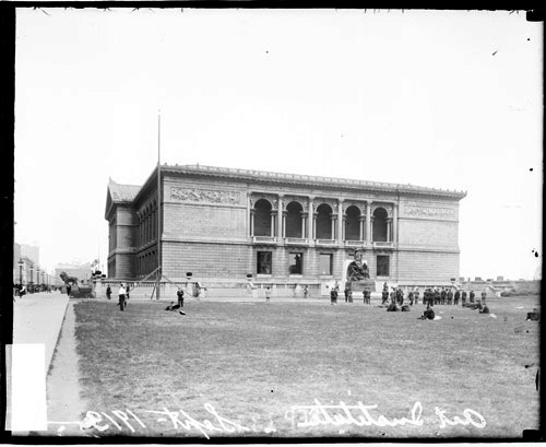 Spirit of the Great Lakes Fountain erected on the south side of the Art Institute of Chicago in the Loop community area of Chicago. This is where the fountain sat from 1913 until 1963.